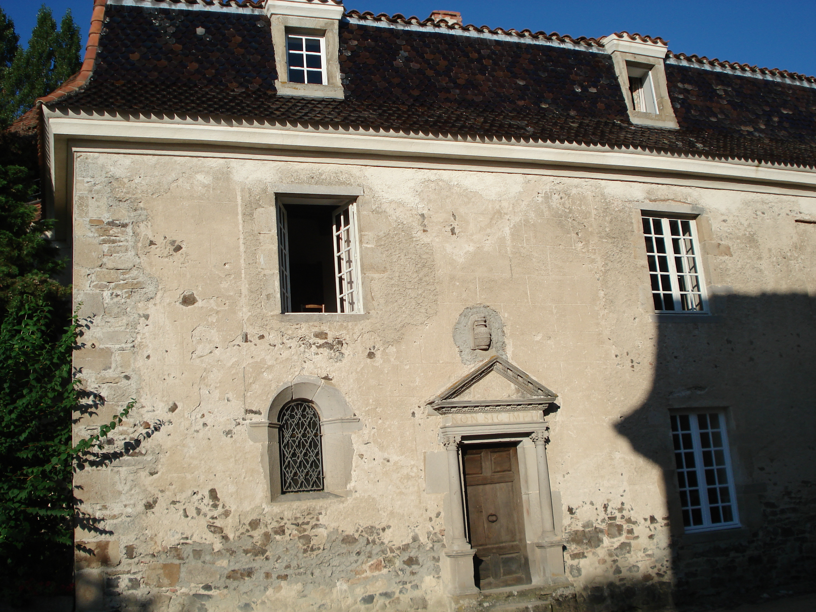 Goutelas' Castle chapel